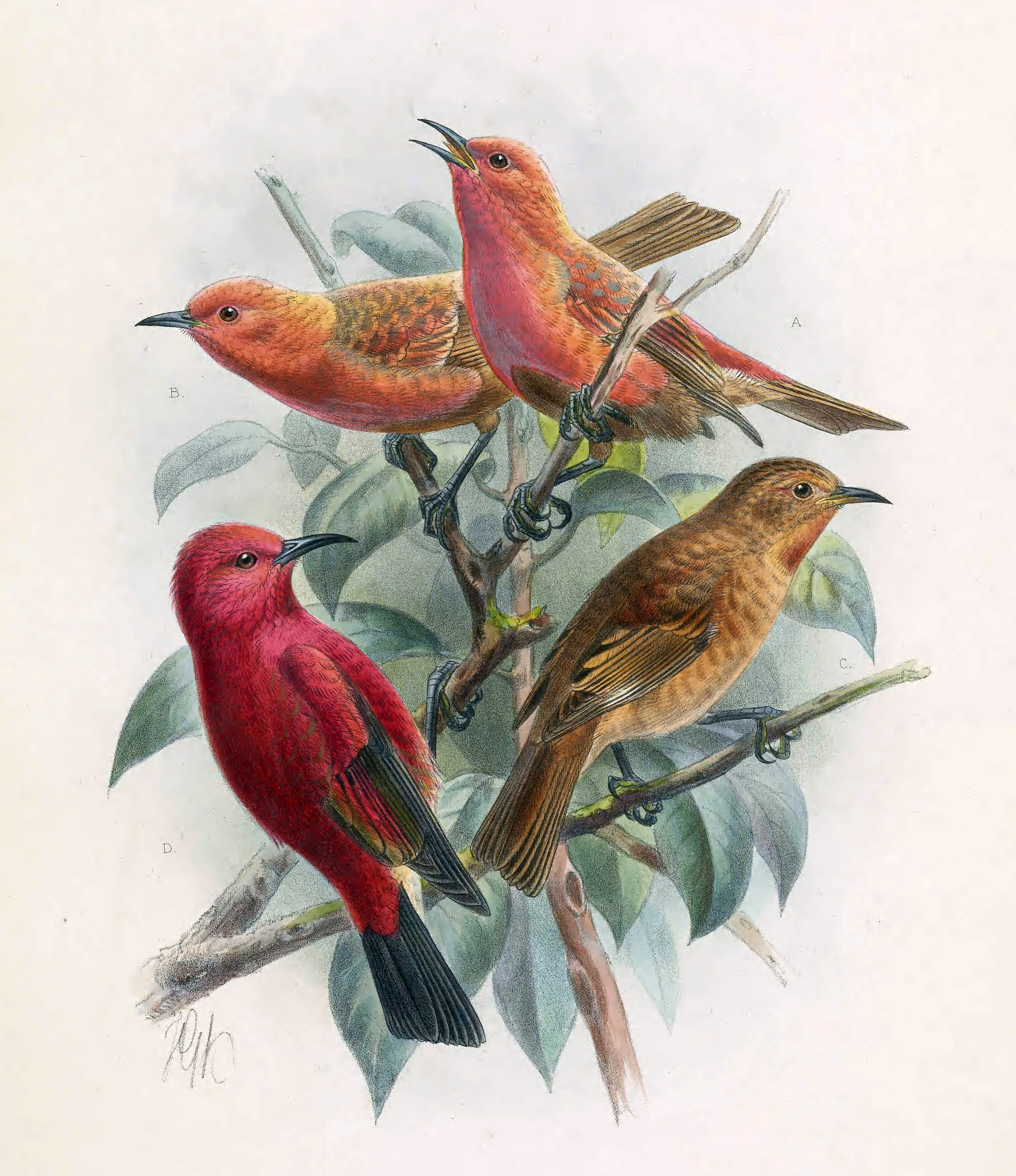 Laysan-Apapane (Himatione sanguinea freethii) (Original description: (Himatione fraithii) Himatione fraithii, Rothsch. A male adult, B Female adult, C Juvenile. Himatione sanguinea, (Gm) D male) Explanation